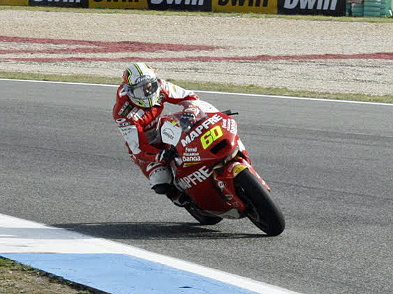 Julian Simon 2011 Estoril